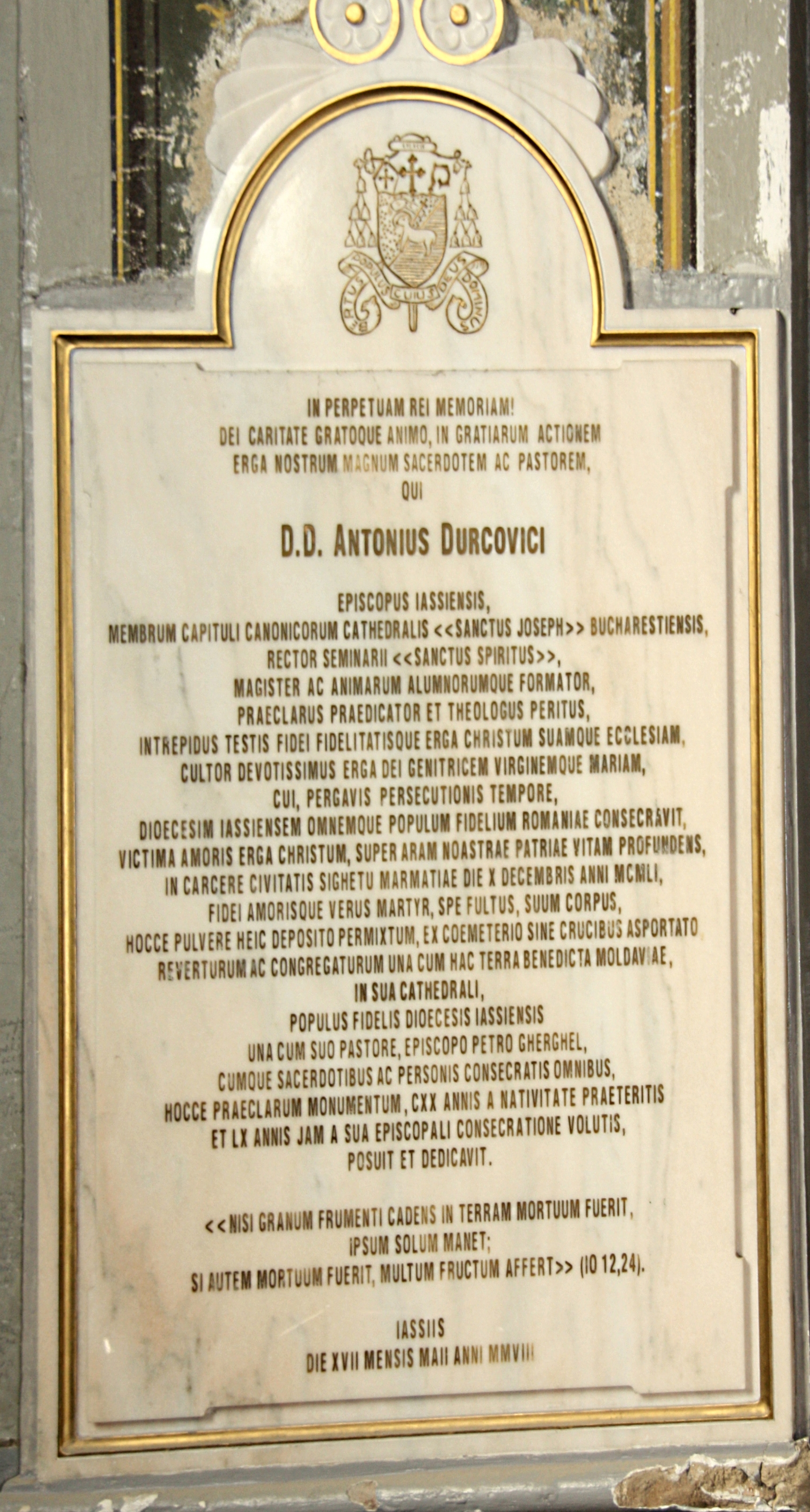 memorial plaque for bishop Anton Durcovici, old roman catholic cathedral of Iași